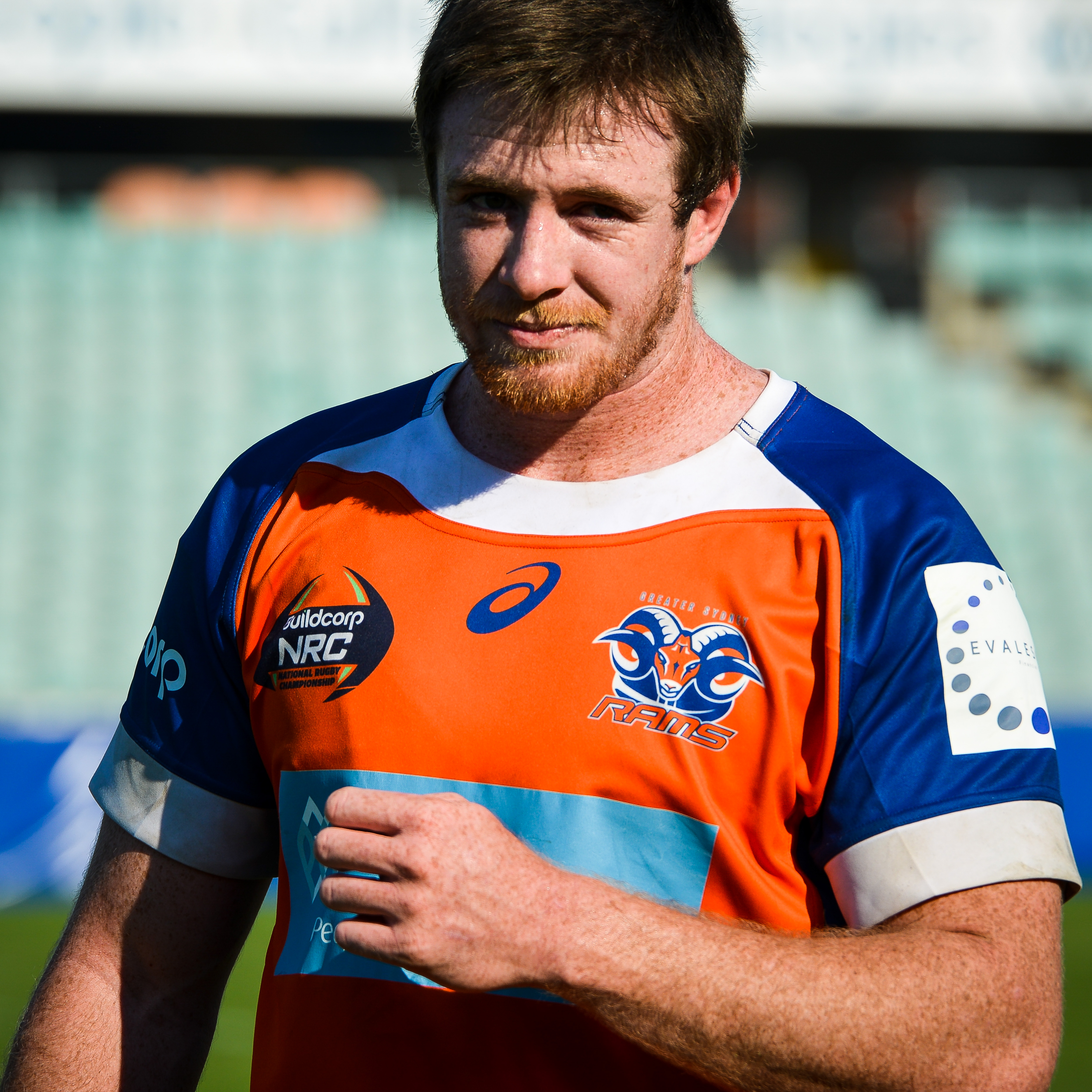 Jed Holloway takes to the field for Greater Sydney Rams